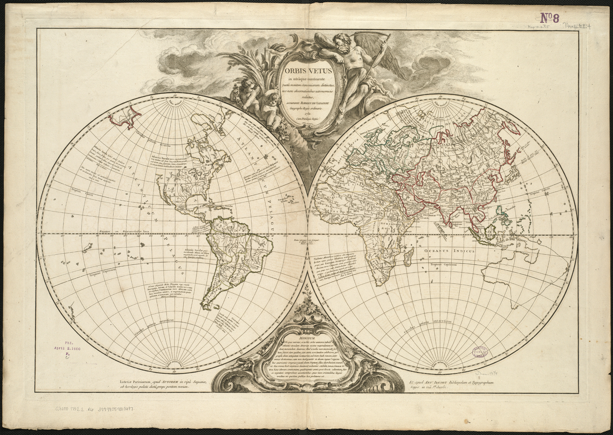 Zoom into this map at . Author: Robert de Vaugondy, Didier Publisher: Robert de Vaugondy, Didier Date: 1752 Dimension: 56x79cm Scale: [ca. 1:36,666,666] Call Number: G3200 1752.2 .R6